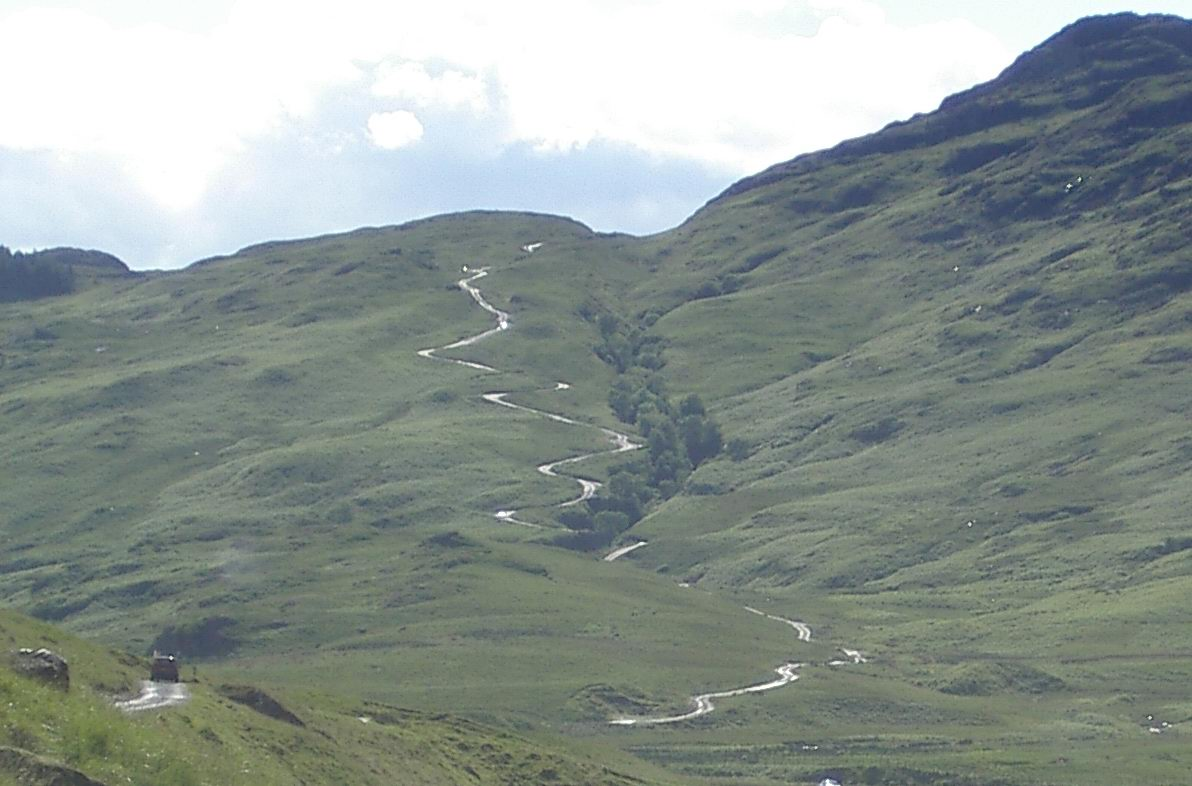 Personal photograph taken by Christopher Kennett on 18th June 2004.